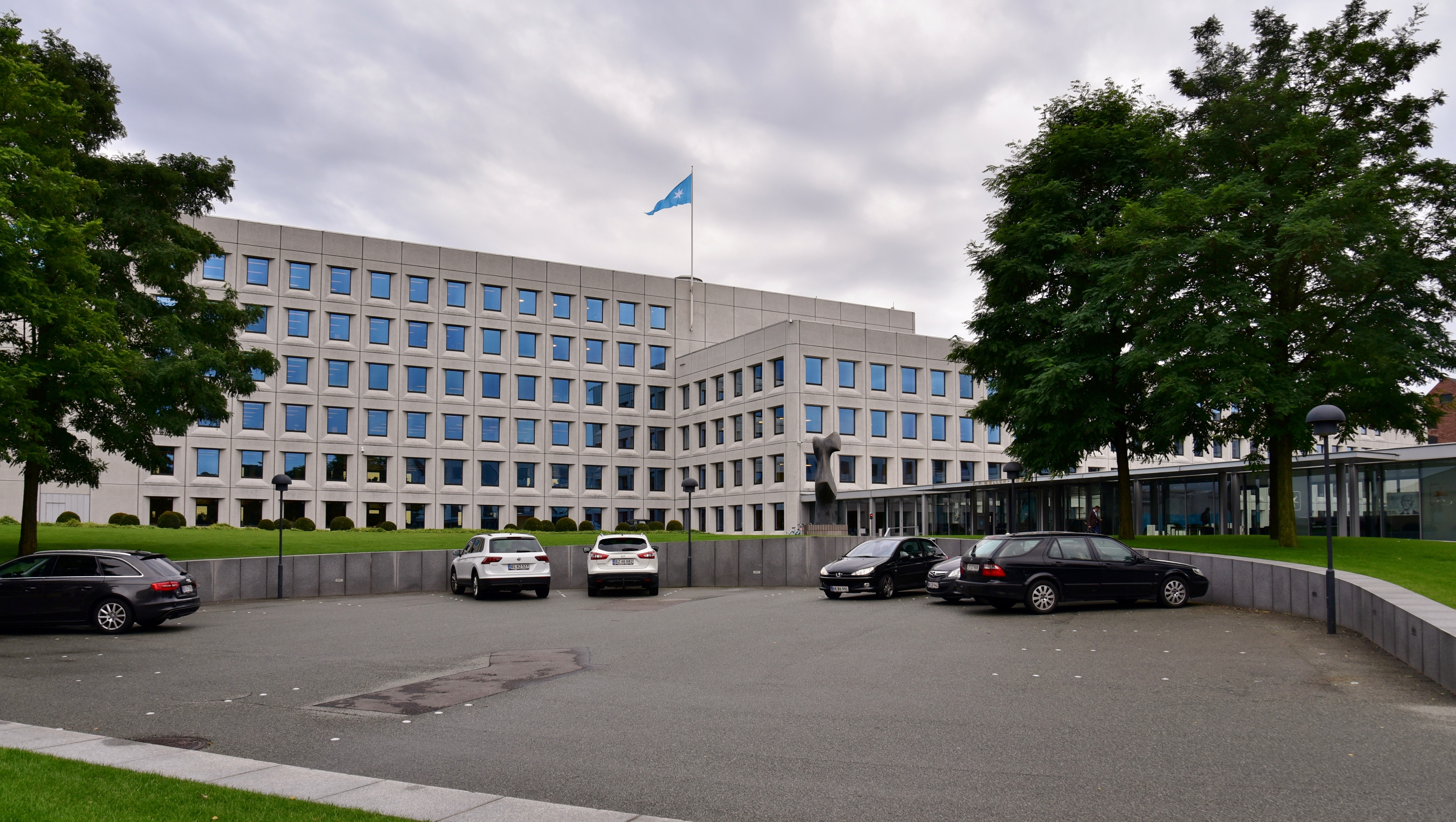 View of the headquarters of the A.P. Moller-Maersk Group, Copenhagen